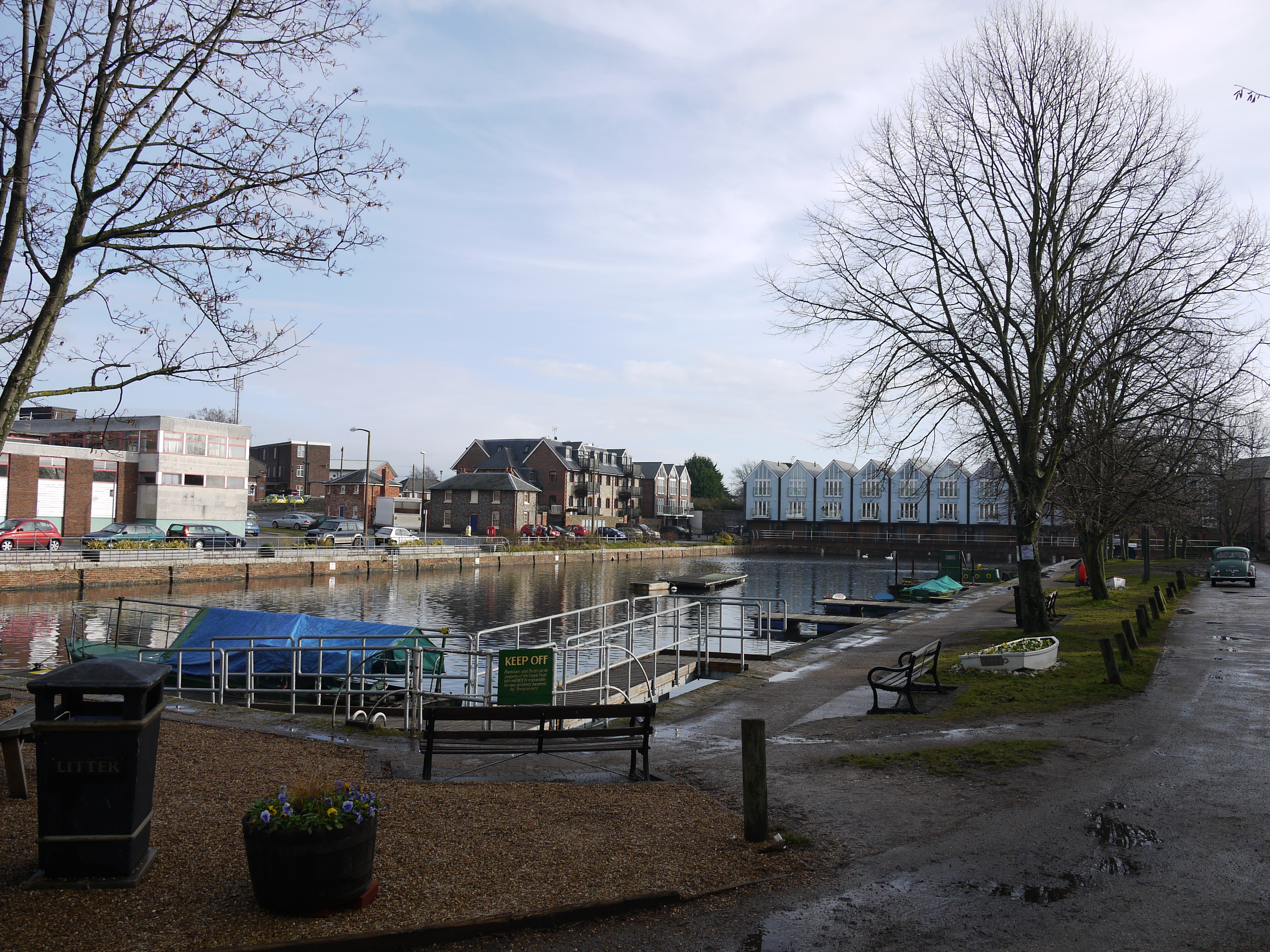 Photo of the terminal basin of the Chichester Canal